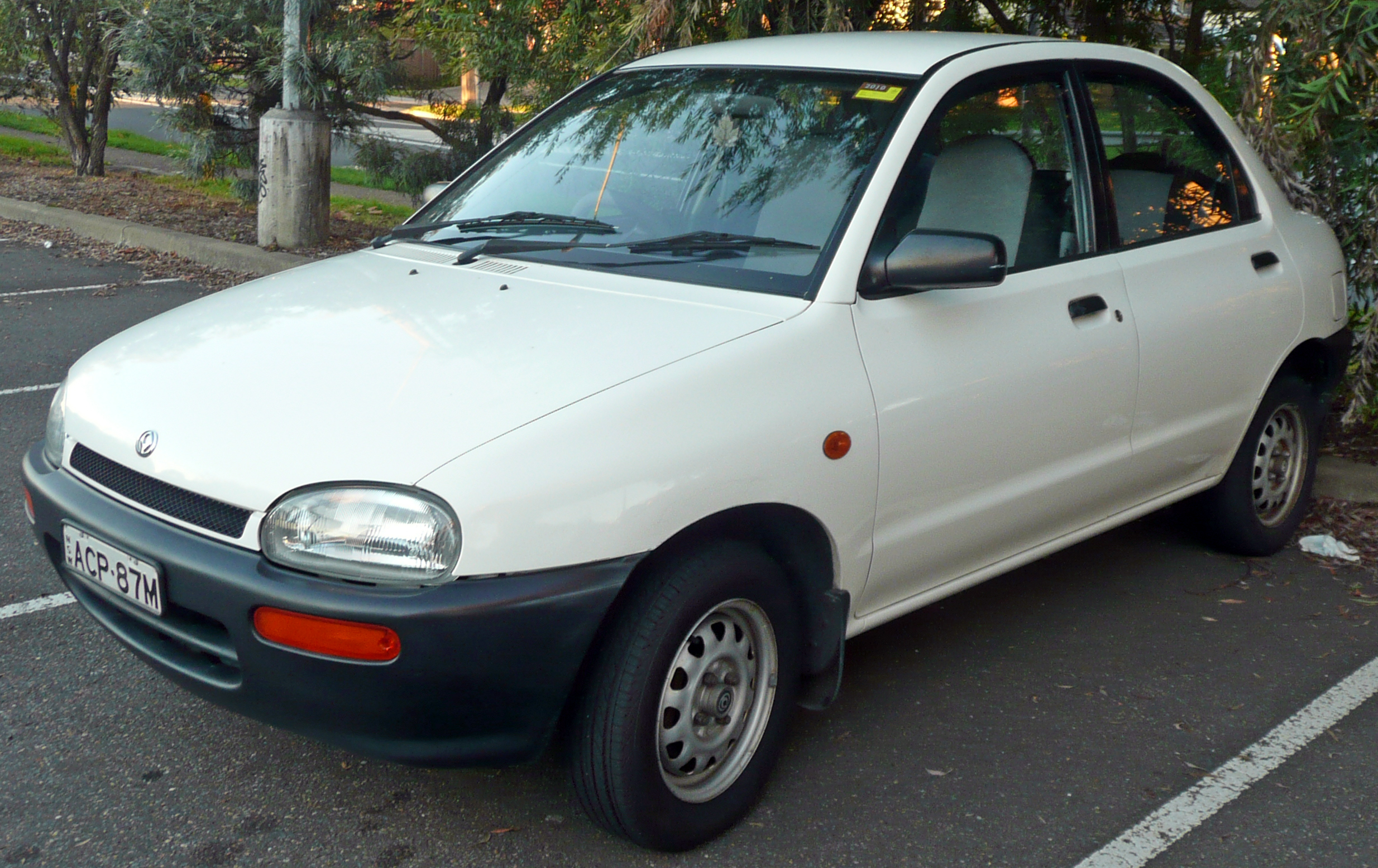 1994 Mazda 121 (DB Series 2) 1.3 sedan. Photographed in Sutherland, New South Wales, Australia.